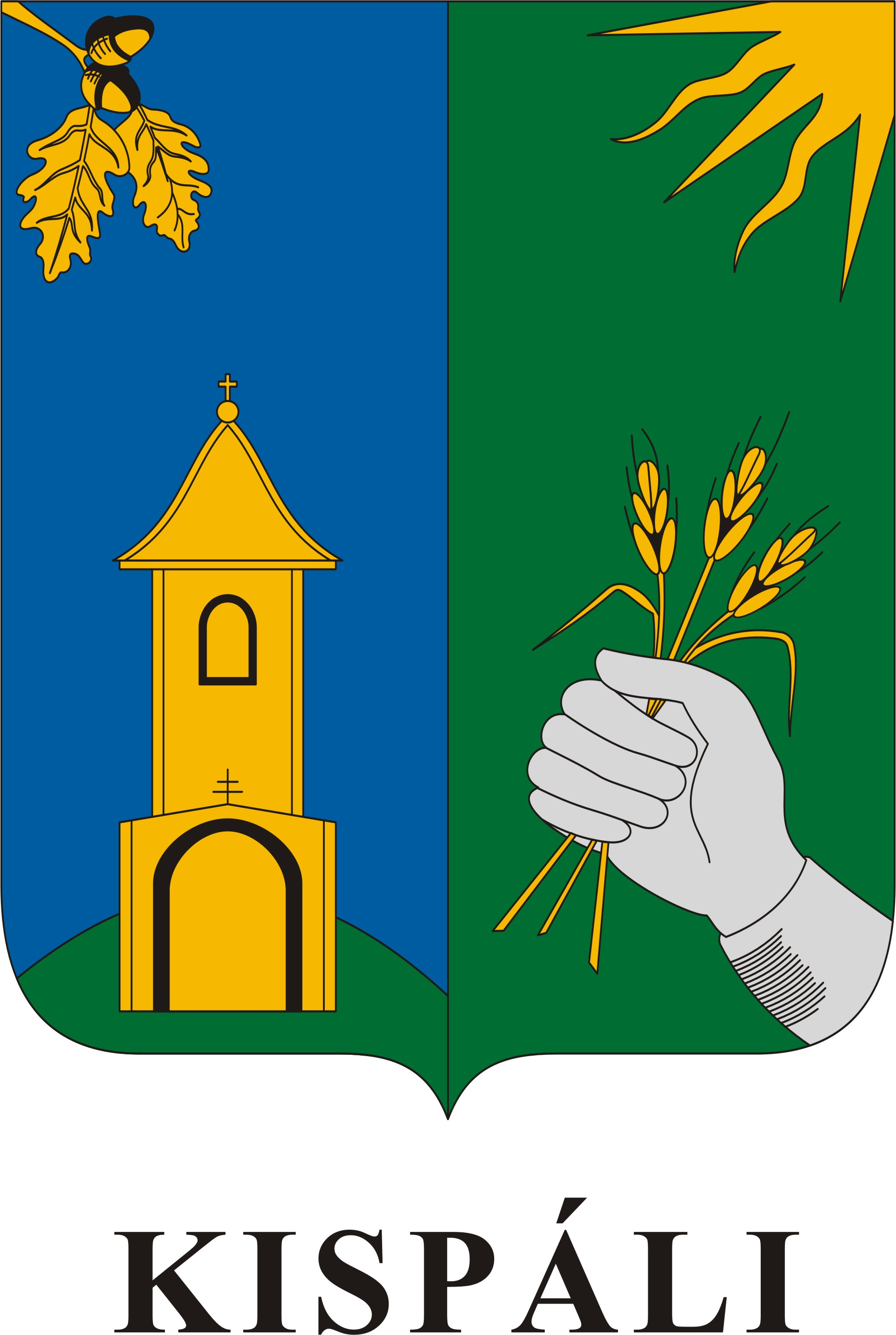 Coat of arms of Kispáli, Hungary